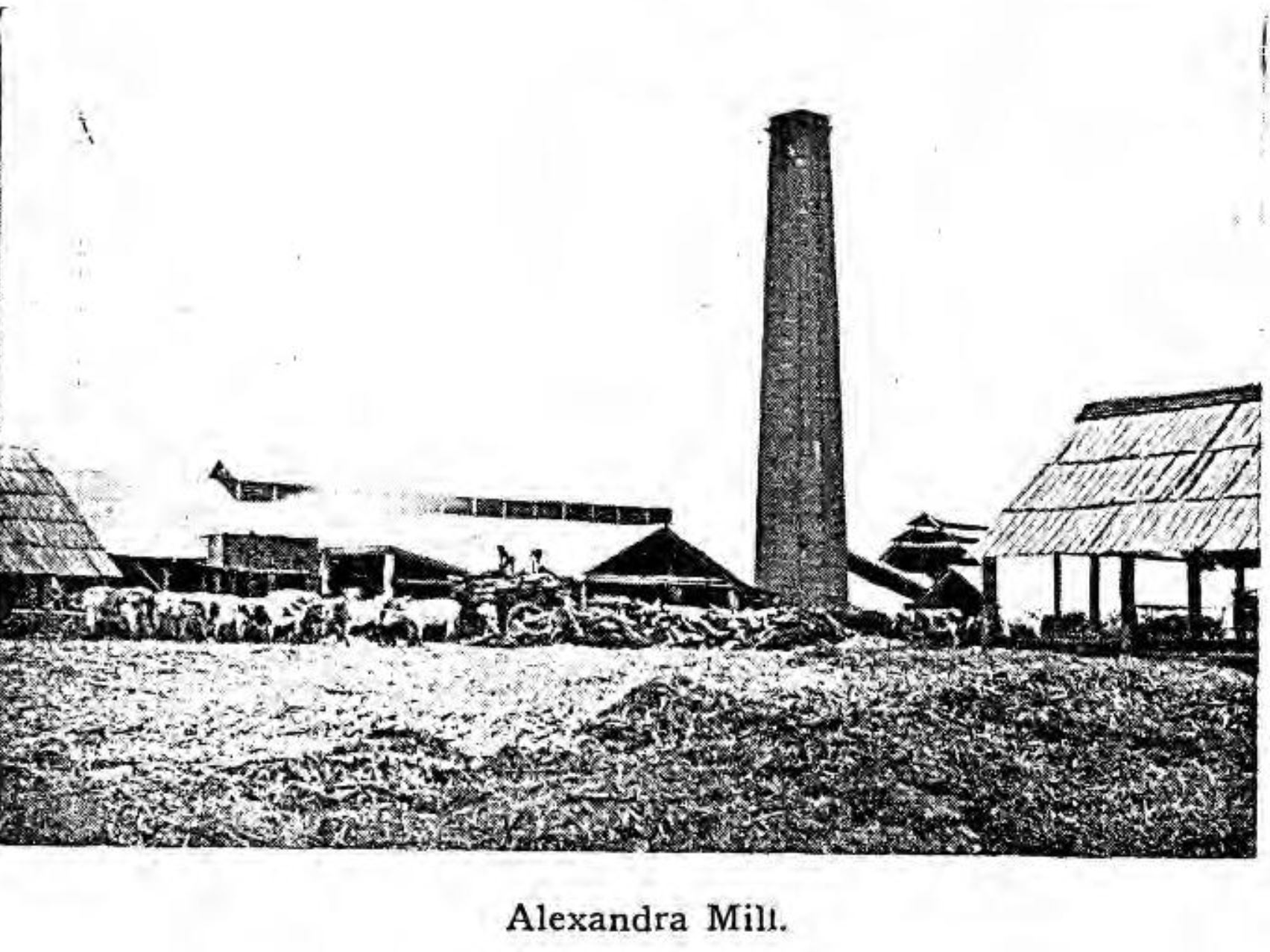 Alexandra Mill, Alexandra, Mackay